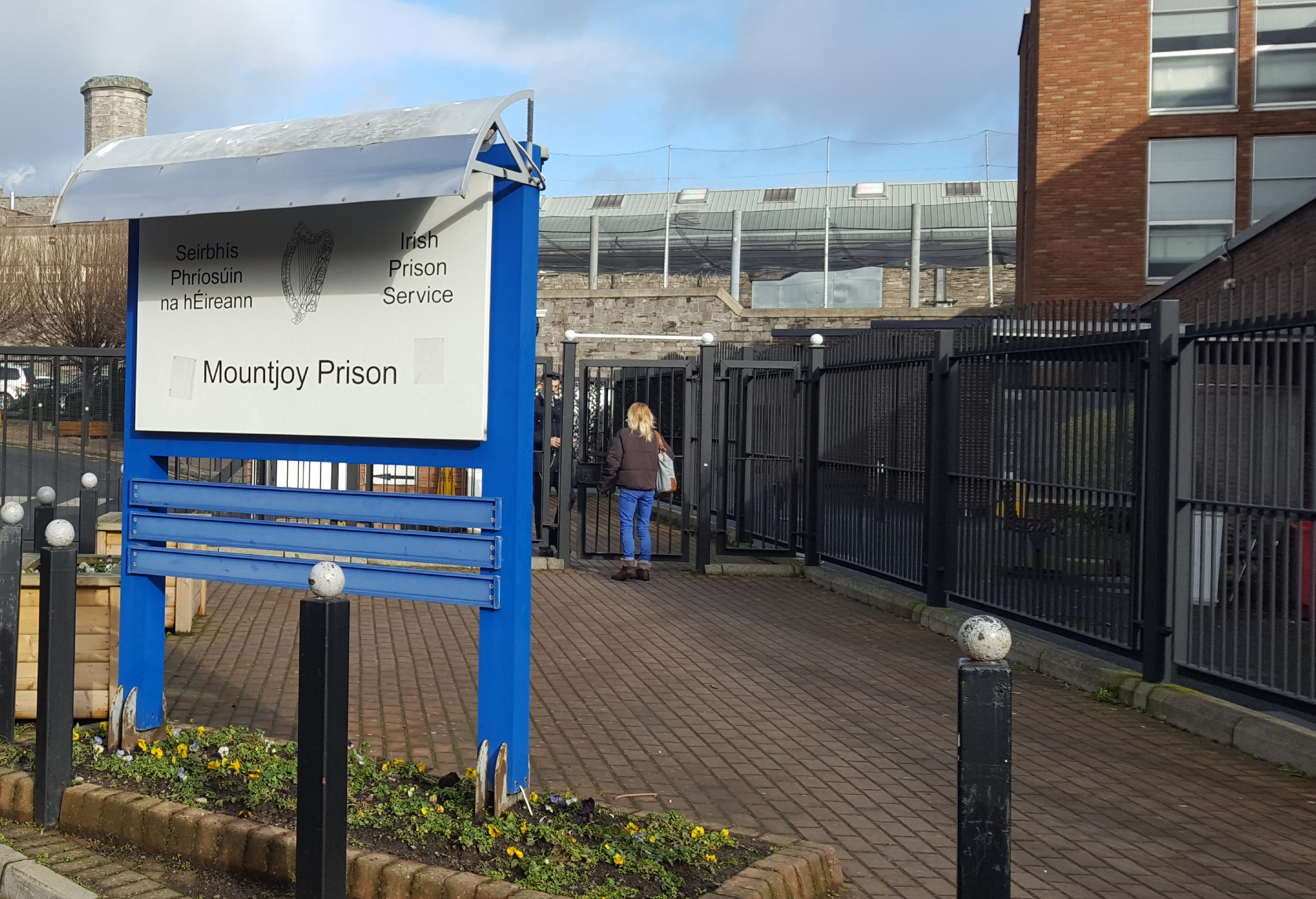 Mountjoy Prison (or Mountjoy Gaol) has the largest prison population in Ireland